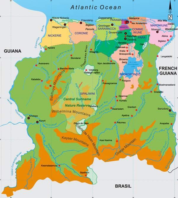 This is the real suriname with all districts